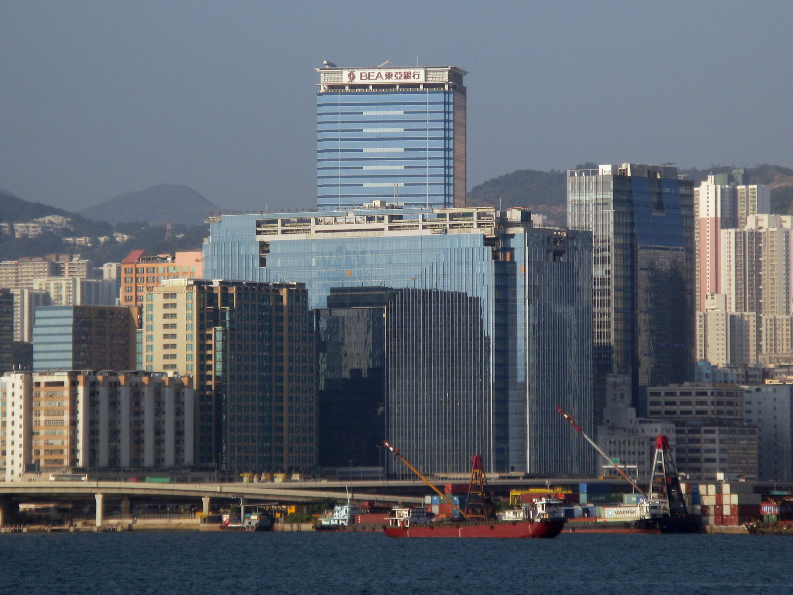 建築中的觀塘223 Kwun Tong 223 under construction